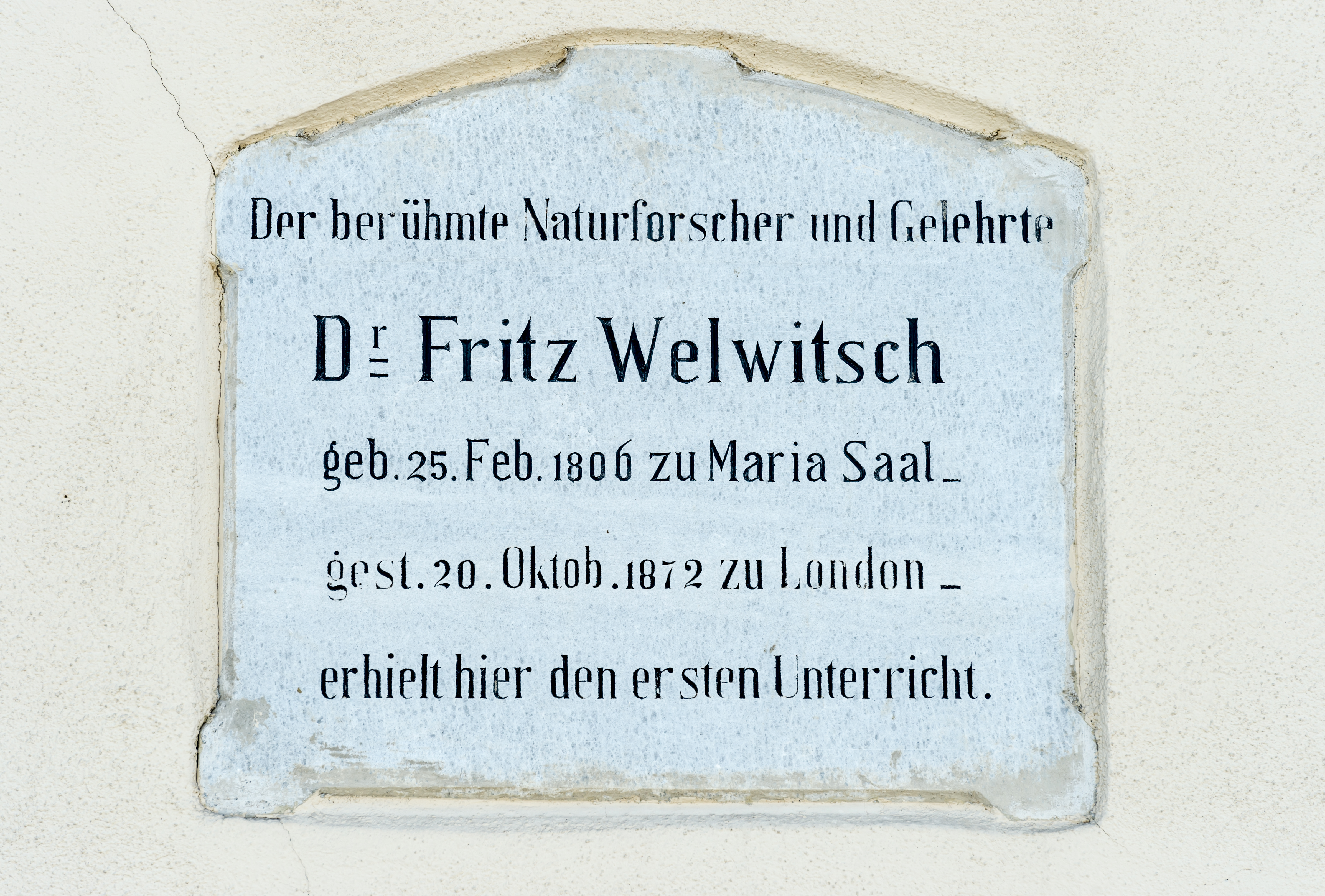 Memorial plaque for Dr. Fredrich Welwitsch at the north wall of the former elementary school on Hauptplatz #6, market town Maria Saal, district Klagenfurt Land, Carinthia, Austria, EU